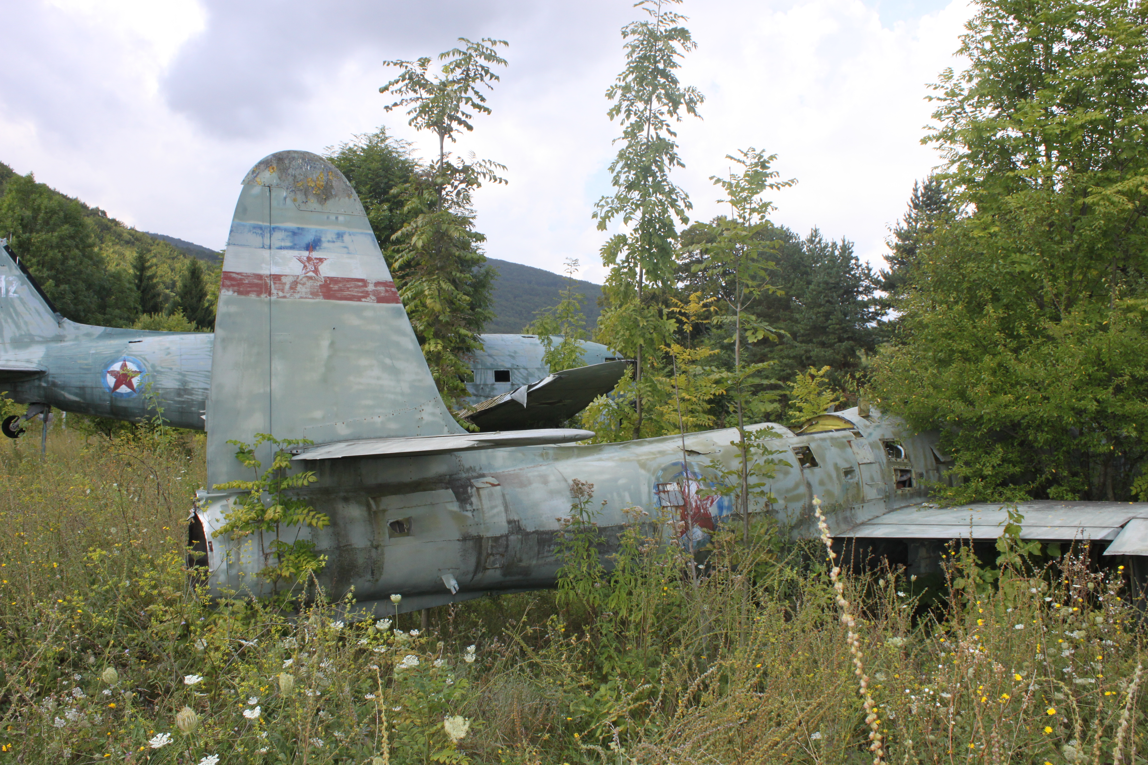 An F-84G and an RF-84G are still dumped at the entrance to the former Željava Airbase in Croatia